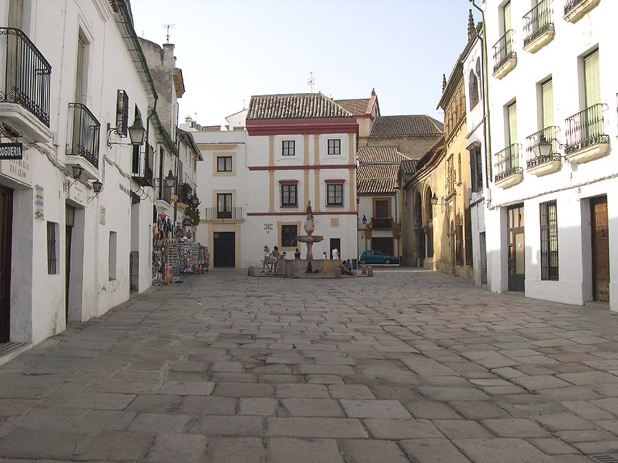 Plaza del Potro, in Córdoba (Spain).